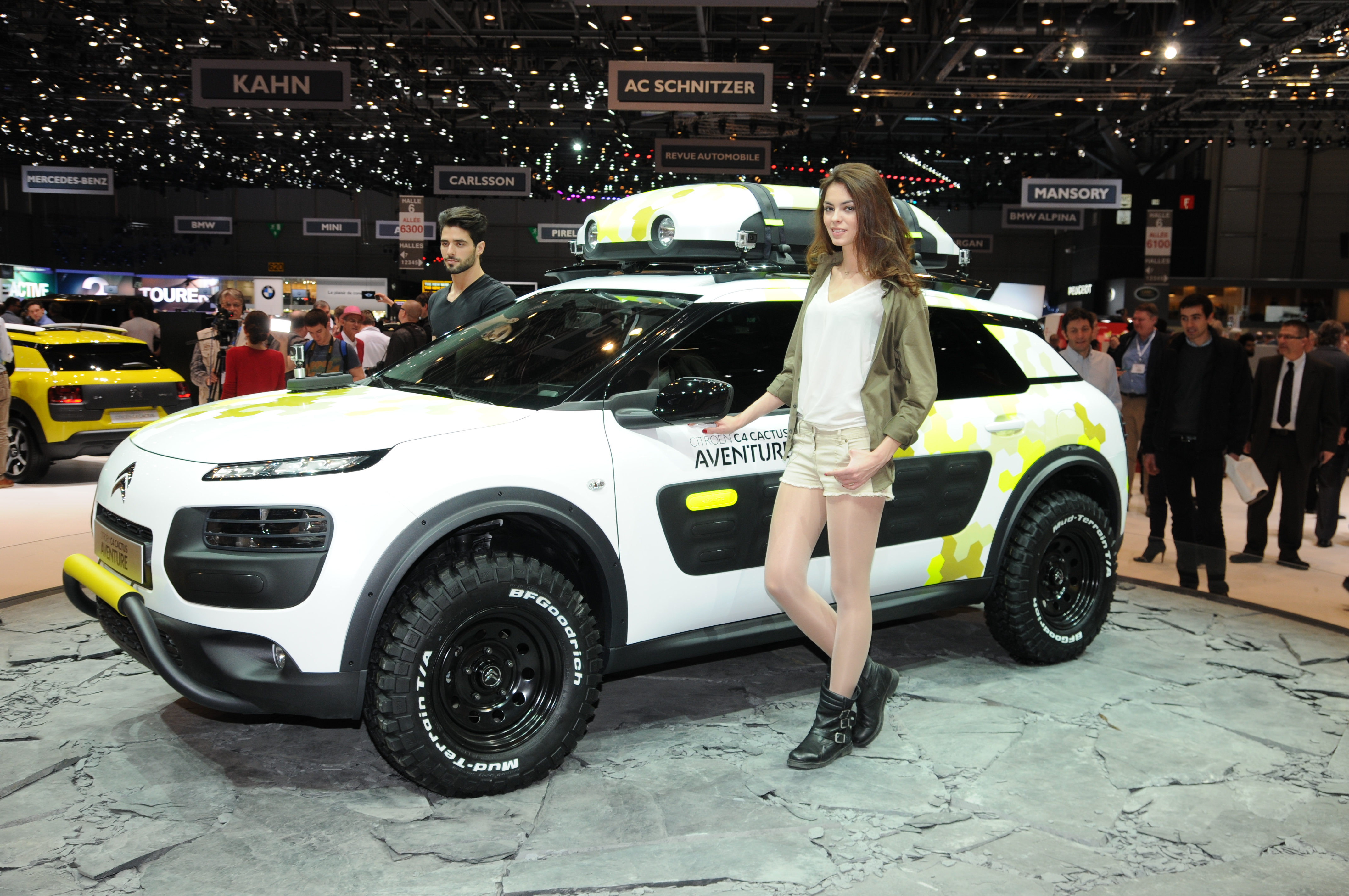 Geneva Motor Show 2014 (photo taken on the first press day)